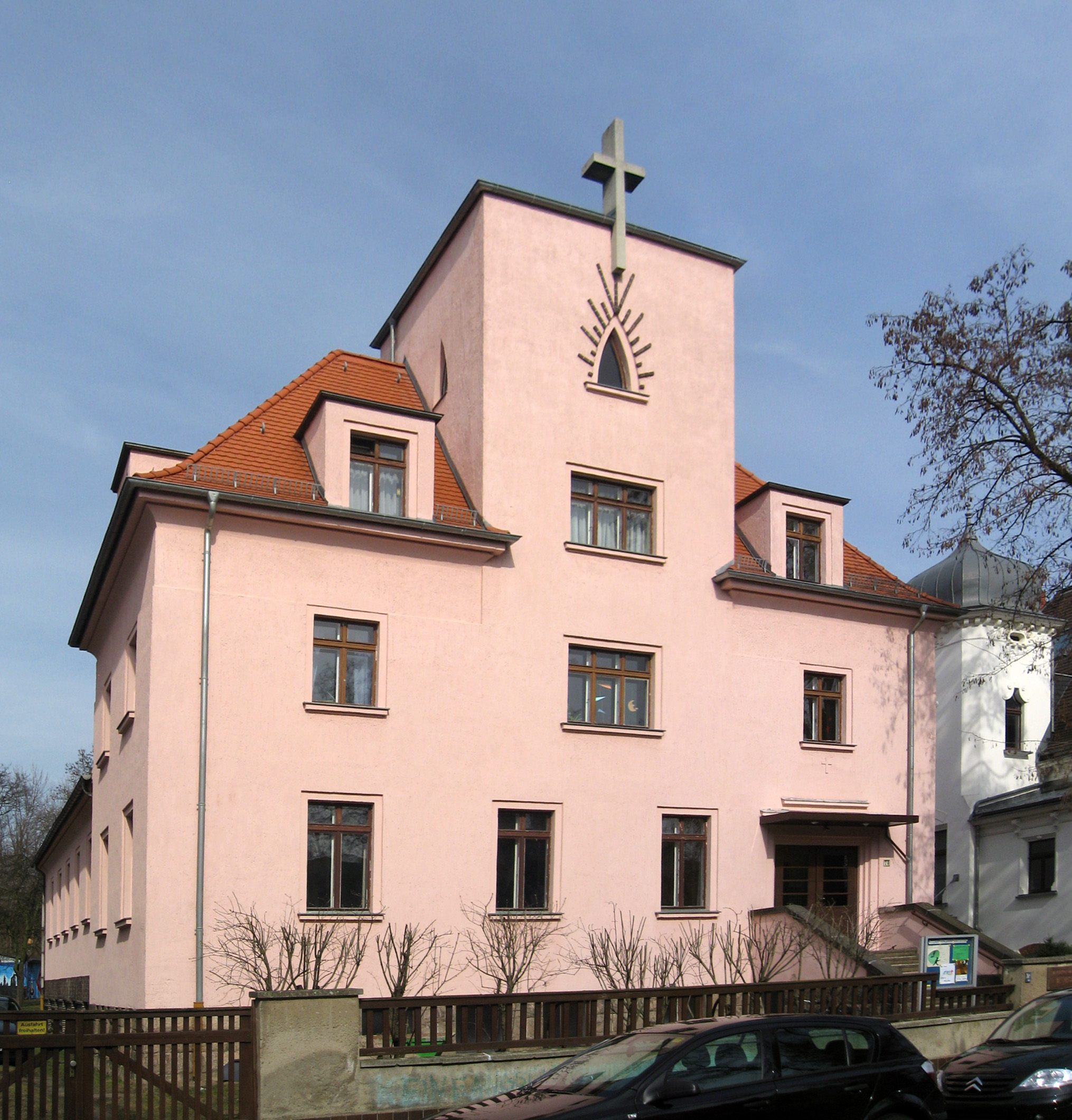 United Methodist Church “Bethesdakirche” in Leipzig-Gohlis, Blumenstrasse 74